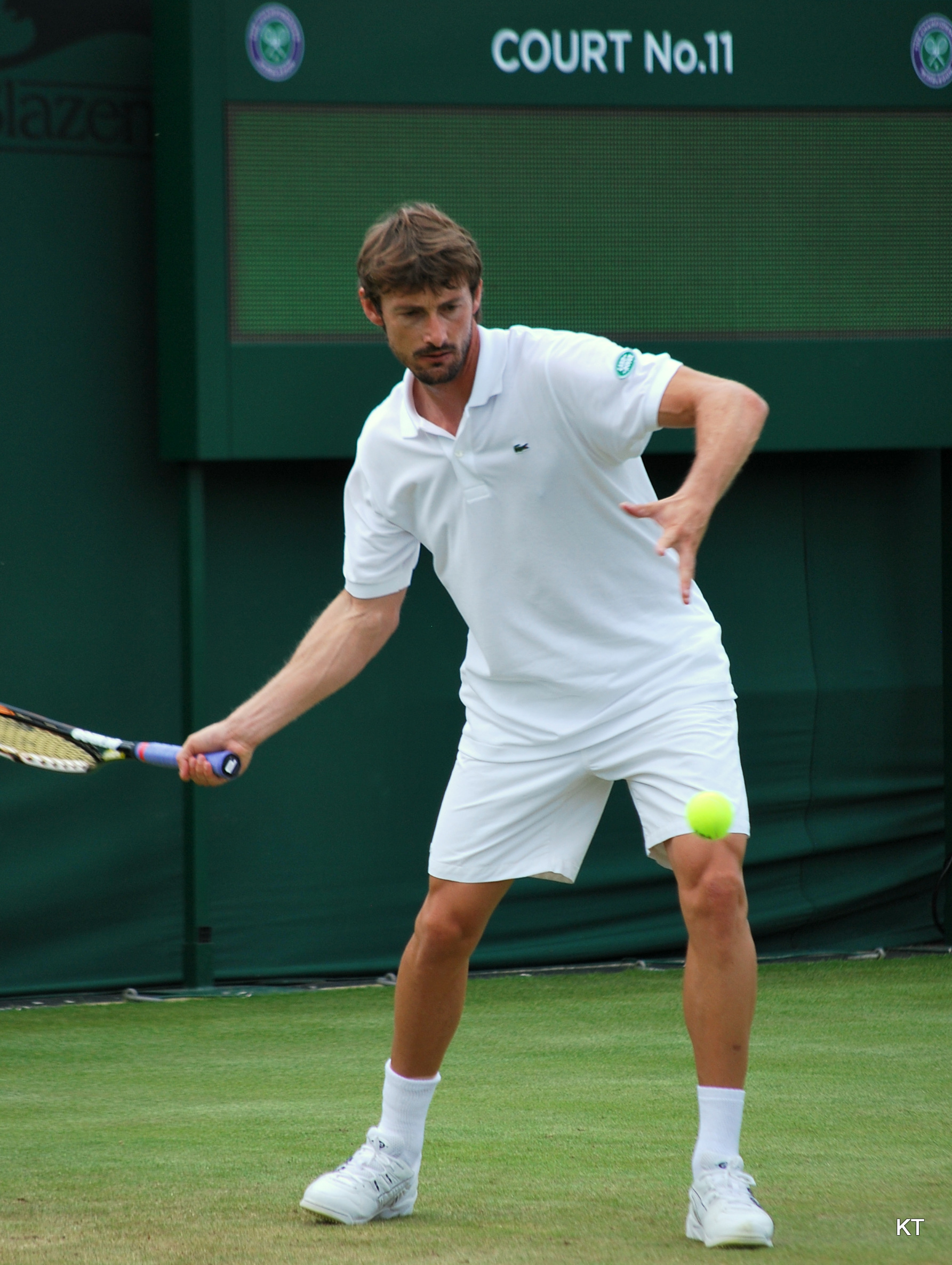 Juan Carlos Ferrero practising with David Nalbandian. Day 1 of Wimbledon 2012.